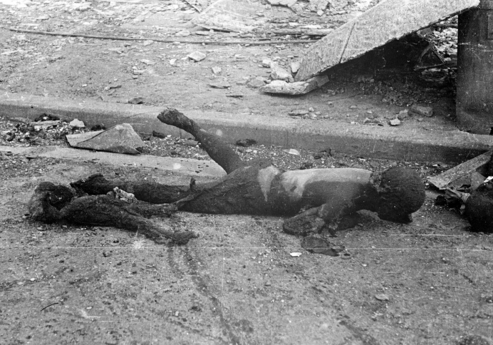 Koyo Ishikawa (1904-1989) took this photograph. This shows the charred body of a woman who was carrying a child on her back; her back itself was not burned. Taken on around 10 March, 1945.